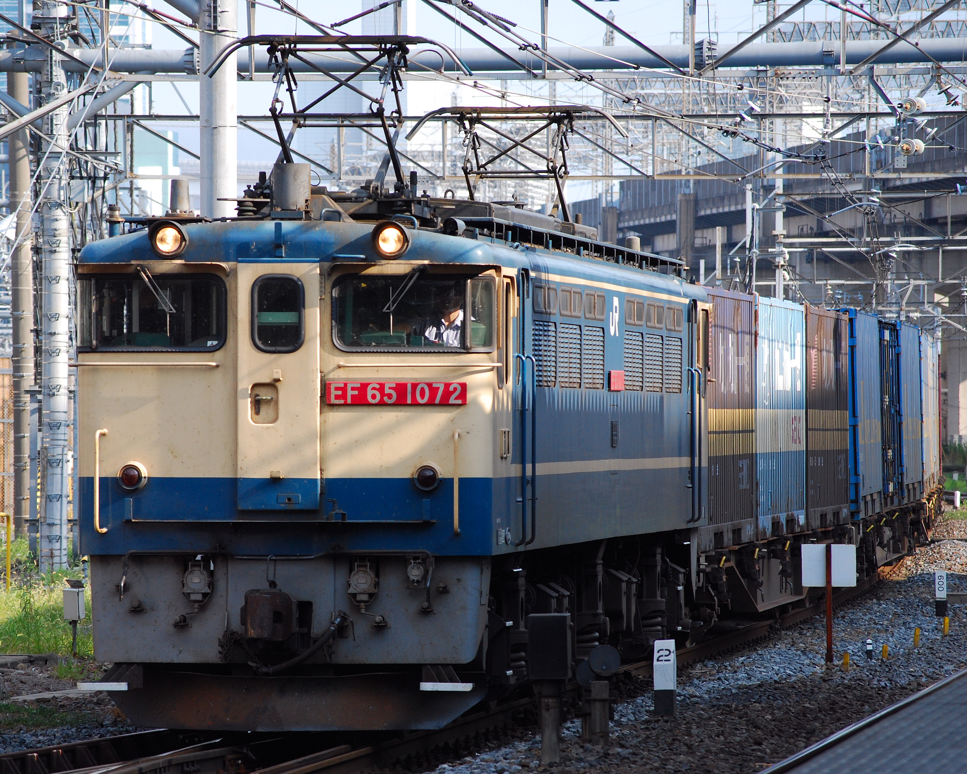 JR Freight Class EF65-1000 electric locomotive EF65-1072 approaching Omiya Station in Saitama Prefecture, Japan, with a northbound container train